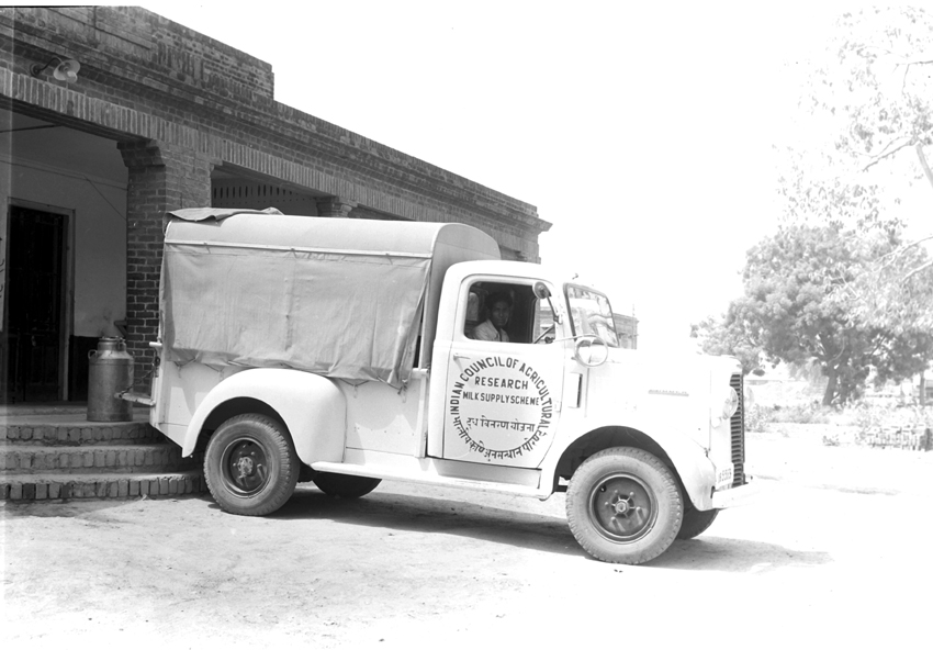 DPIO(F)/Jul.’51, A03aDelhi Milk Supply Scheme A Milk Supply Van on its round. Photo Number:-21923